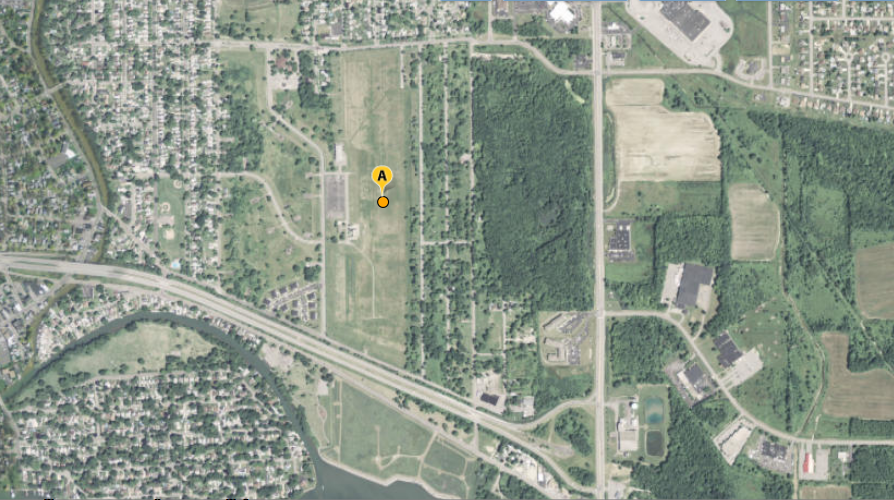 Image of the Love Canal site from the National Map. The Love Canal is the undeveloped rectangular zone in the middle marked with the "A"